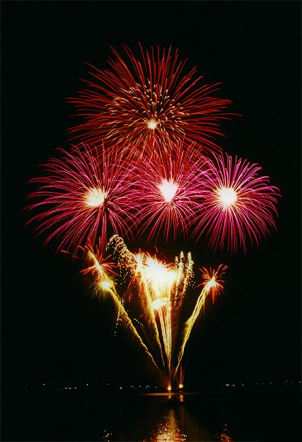 Fireworks over Hamburg of the japanese Kirschblütenfest